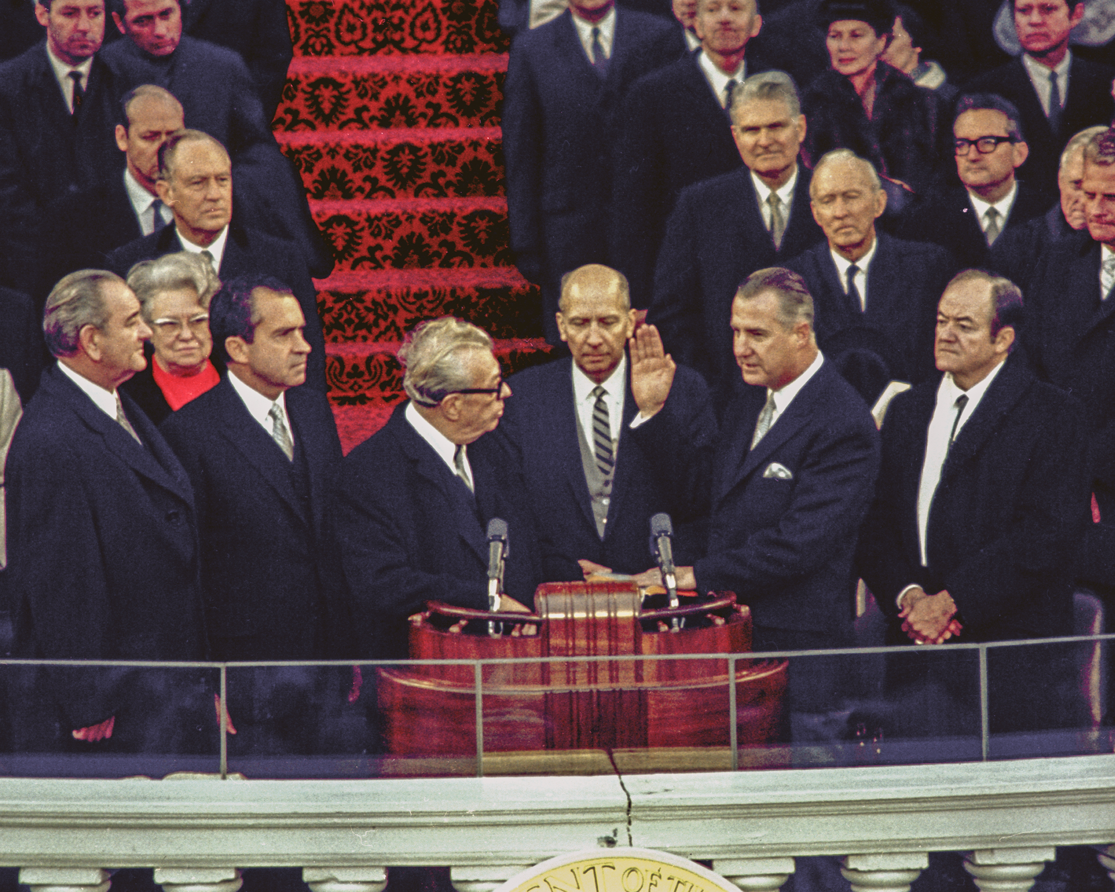 L-R: President Lyndon Johnson, President-Elect Richard Nixon, Senate Minority Leader Everett Dirksen, Spiro Agnew sworn in as Vice President, and the outgoing Vice President Hubert Humphrey at inauguration, 20 January1969. This media is available in the holdings of the National Archives and Records Administration, cataloged under the National Archives Identifier (NAID) 194280. This tag does not indicate the copyright status of the attached work. A normal copyright tag is still required. See Commons:Licensing. Creator: President (1969-1974: Nixon). White House Photo Office. (1969 - 1974) (Most Recent) Type of Archival Materials: Photographs and other Graphic Materials Level of Description: Item from Collection NS-WHPO: White House Photo Office Collection, 01/20/1969 - 08/09/1974 Location: Richard Nixon Library - College Park (NLRNS), National Archives at College Park, 8601 Adelphi Road, Room 1320, College Park, MD 20740-6001 PHONE: 301-837-3290, FAX: 301-837-3202, Production Date: 01/20/1969 Part of: Series: Master Print File, 1969 - 1974 Scope & Content Note: Pictured: Lyndon Baines Johnson, Richard M. Nixon, Everett Dirksen, ?, Spiro T. Agnew, Hubert H. Humphrey. Subject: Inauguration - 1969. Access Restrictions: Unrestricted Use Restrictions: Unrestricted